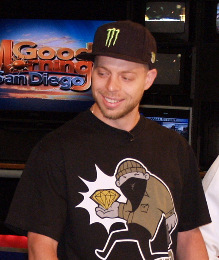 I took this photo of Pierre-Luc Gagnon while he was in San Diego promoting the Maloof Money Cup for skateboarders.